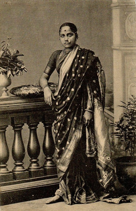 Marathi women in traditional Nauvari sari